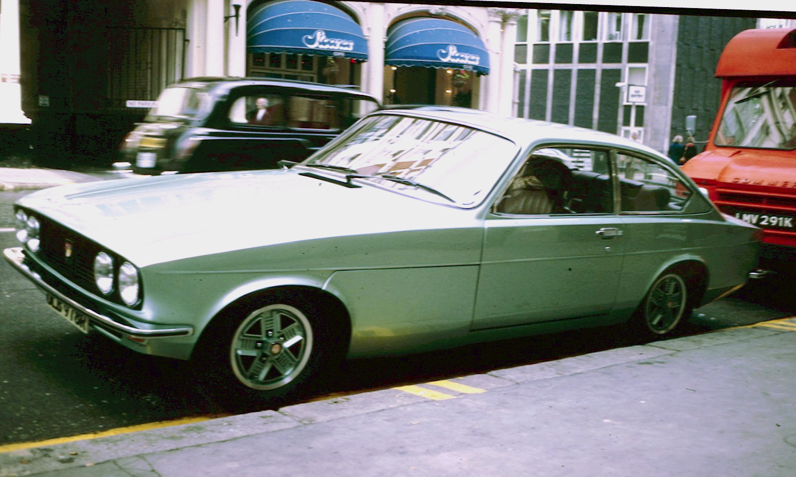 Bristol 603 Series 1. Modifyed Version of File Bristol 603 London.jpg